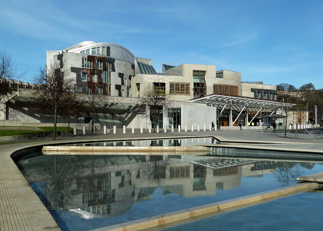 Scottish Parliament Building located in Holyrood, Edinburgh, seat of the Scottish Government.